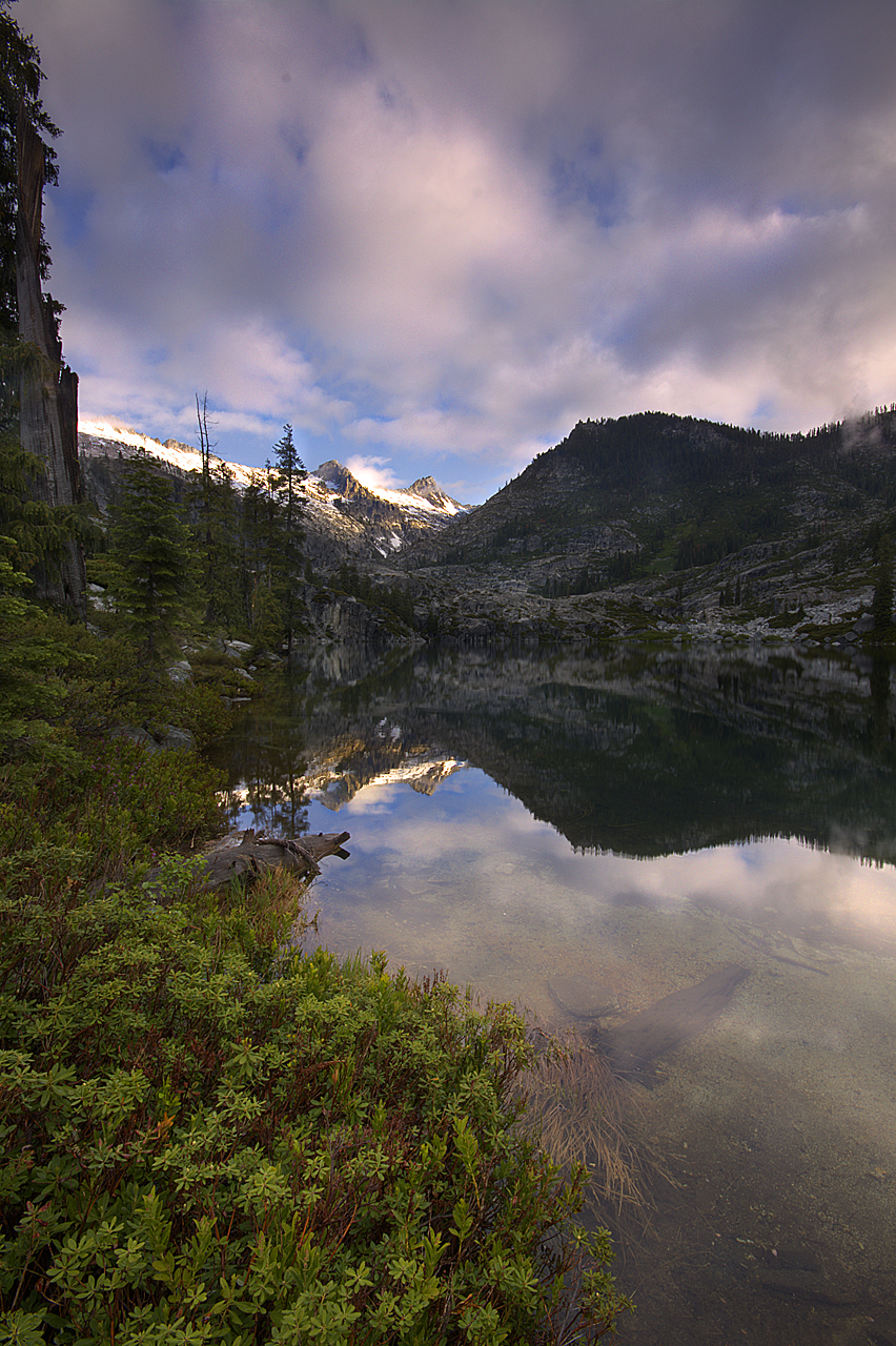 View On Black. Taken during a backpacking trip to the Canyon Creek Lakes in the Trinity Alps, California in June 2009. Wedding Cake and Thompson peak are in the background. (Multiple blended exposures)